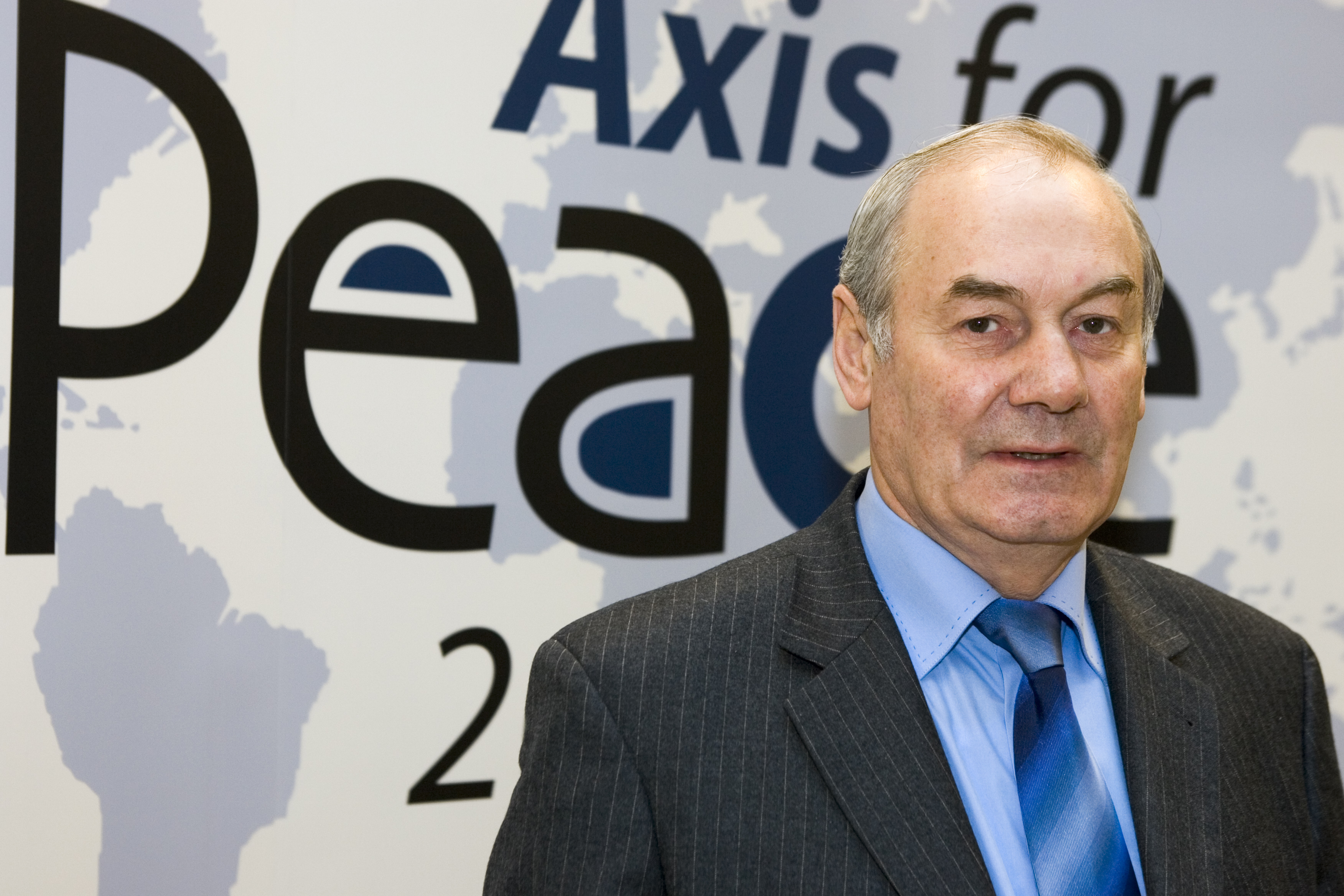 General Leonid Ivashov, vice president of the Academy on Geopolitical Affairs and former Joint Chief of Staff of the Russian Armed Forces, at the 2005 Axis for Peace conference.